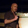 crop of Andy Parsons performing on stage. Levels adjusted.